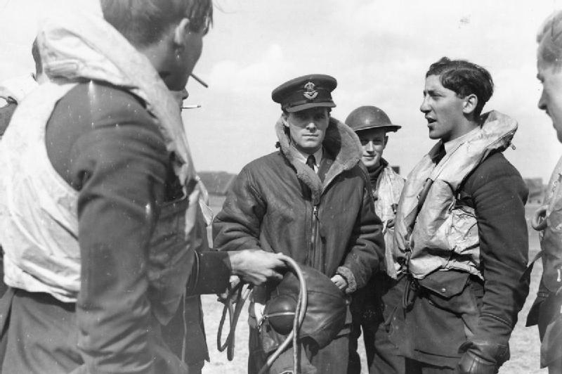 RAF Fighter Command 1940 A Spitfire pilot of No. 610 Squadron recounts how he shot down a Messerschmitt Bf 110, Biggin Hill, September 1940.